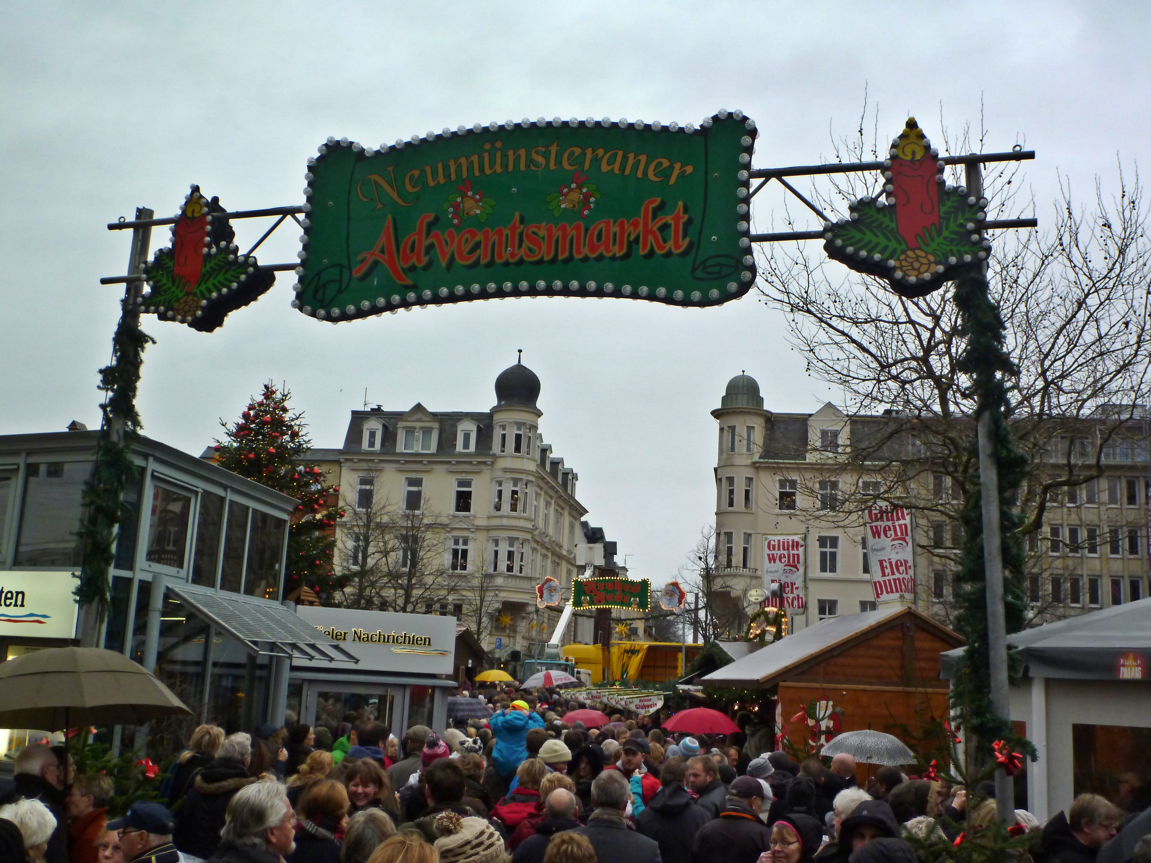 Christmas marked in Neumünster on Großflecken.